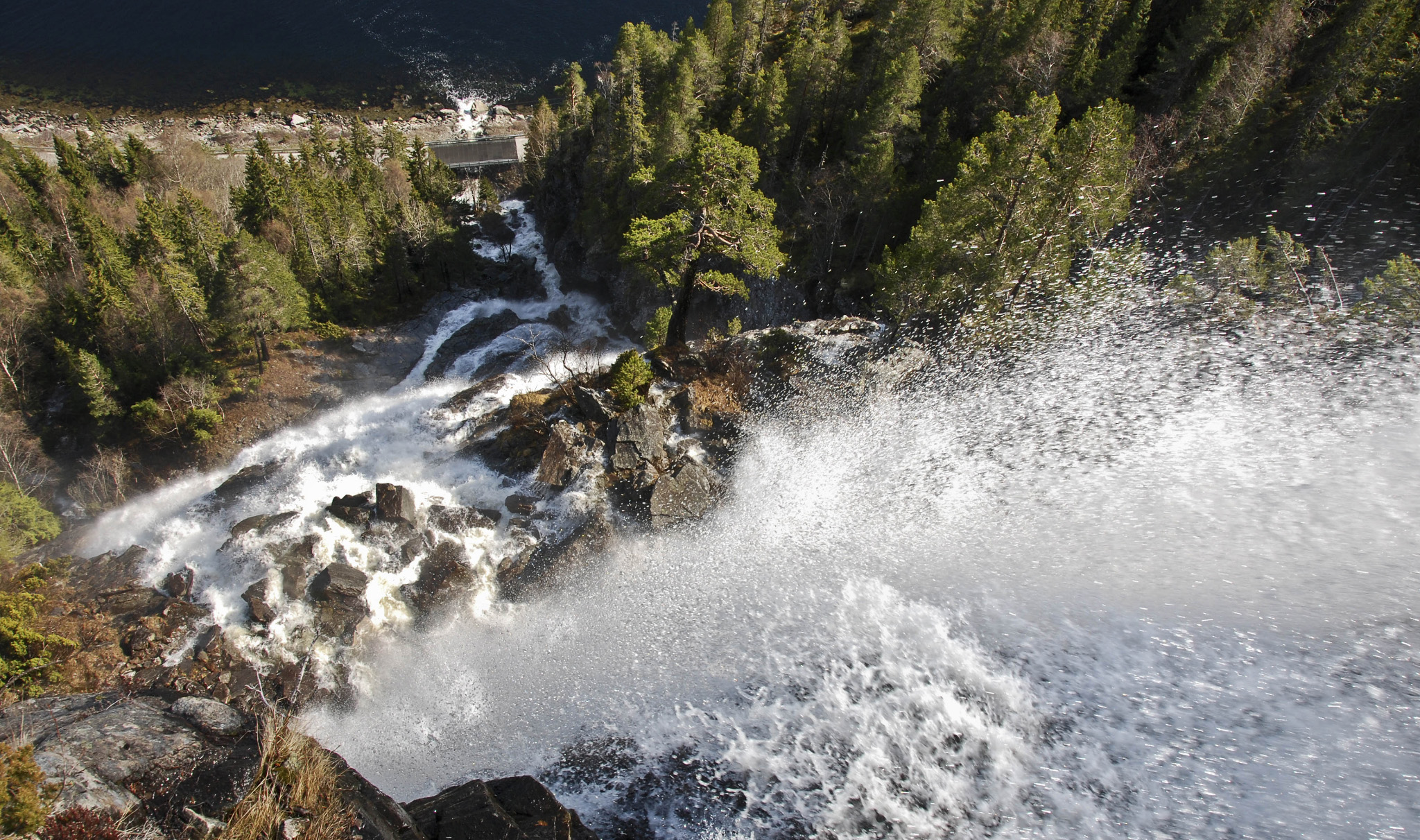 Bjørnåa at spring flood